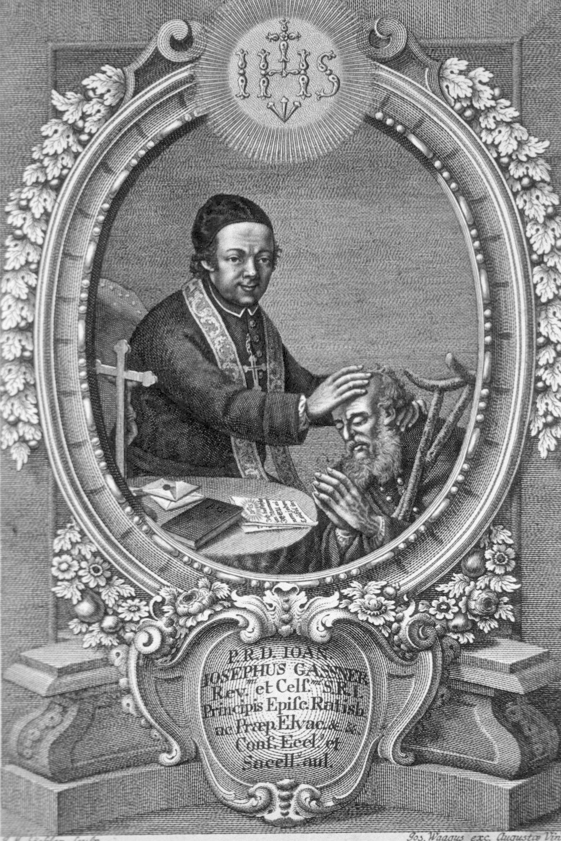 Gassner, Joan Joseph (1727-1779)